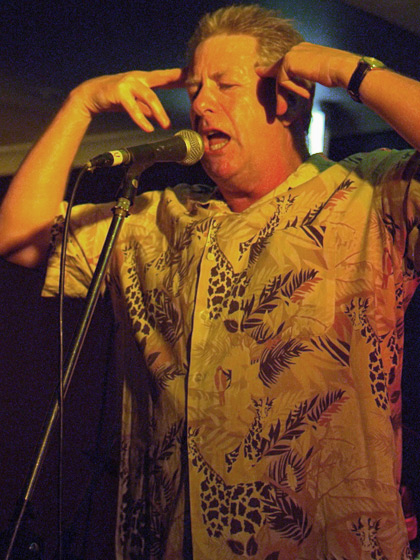 Dave Warner Sydney, November 2007 See the full gallery - [1]